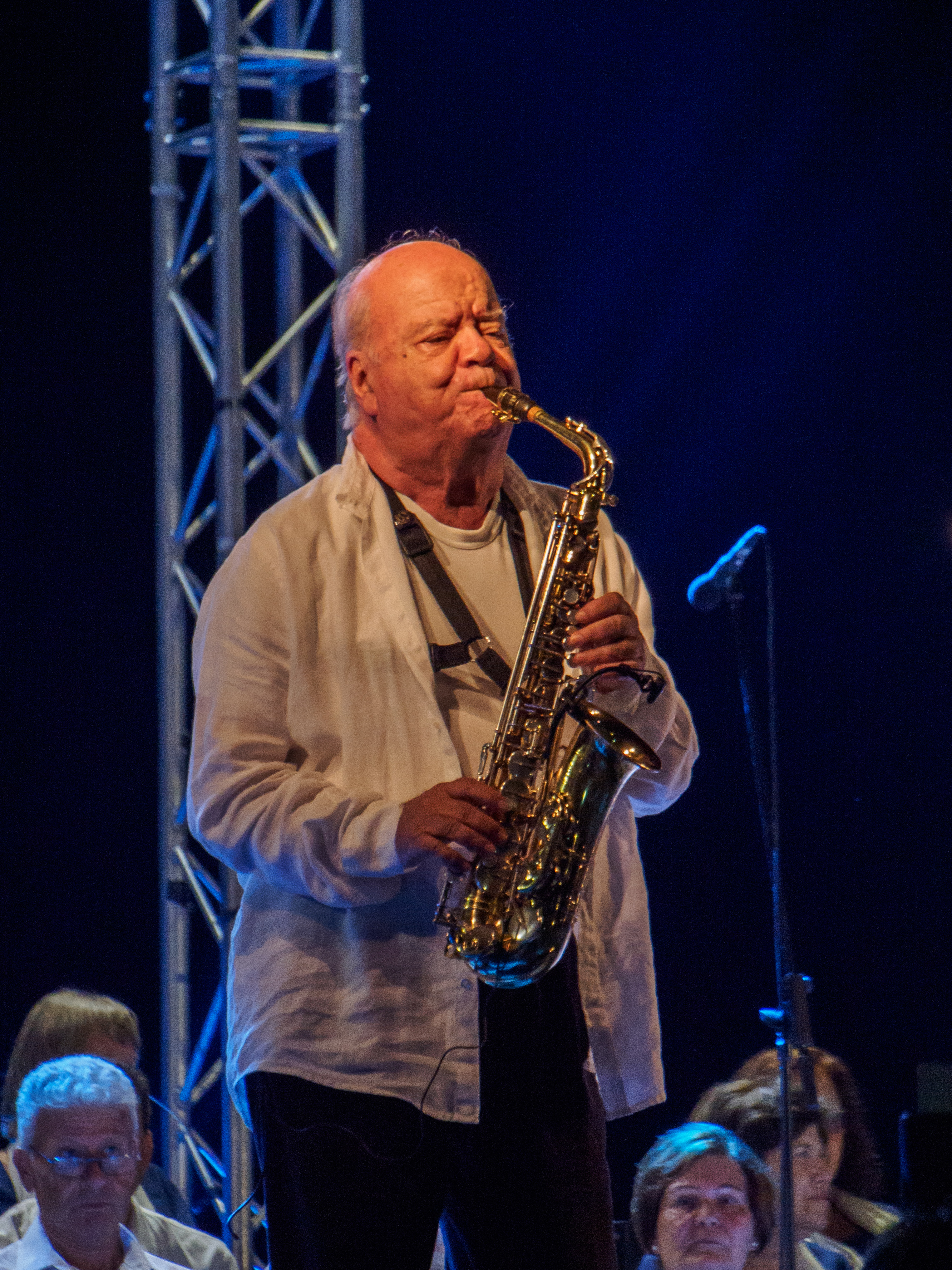 Greek saxophonist and musician Giorgos Katsaros, during the 2019 August full moon consert.